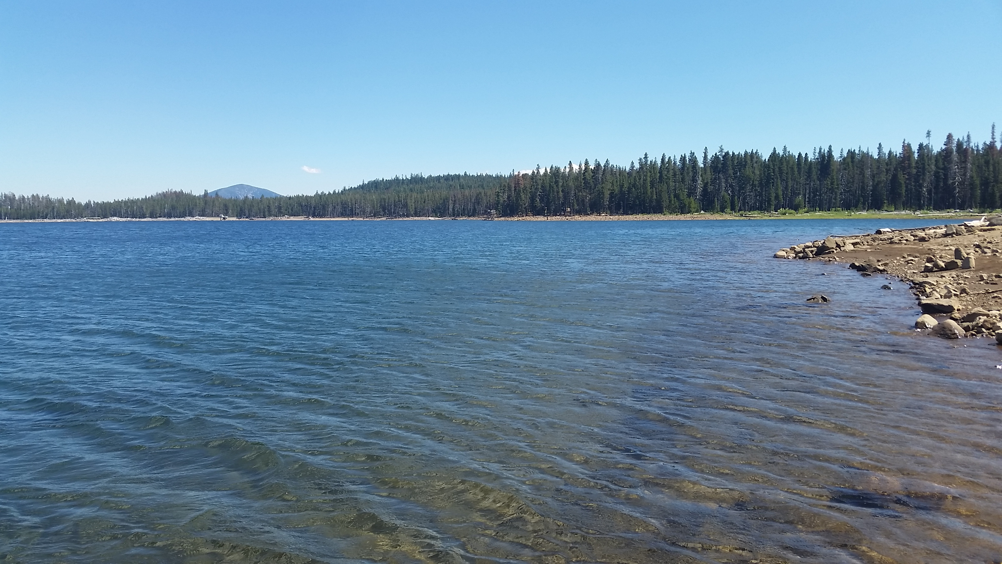 Formile Lake, South shore; Aspen Bute in the background.